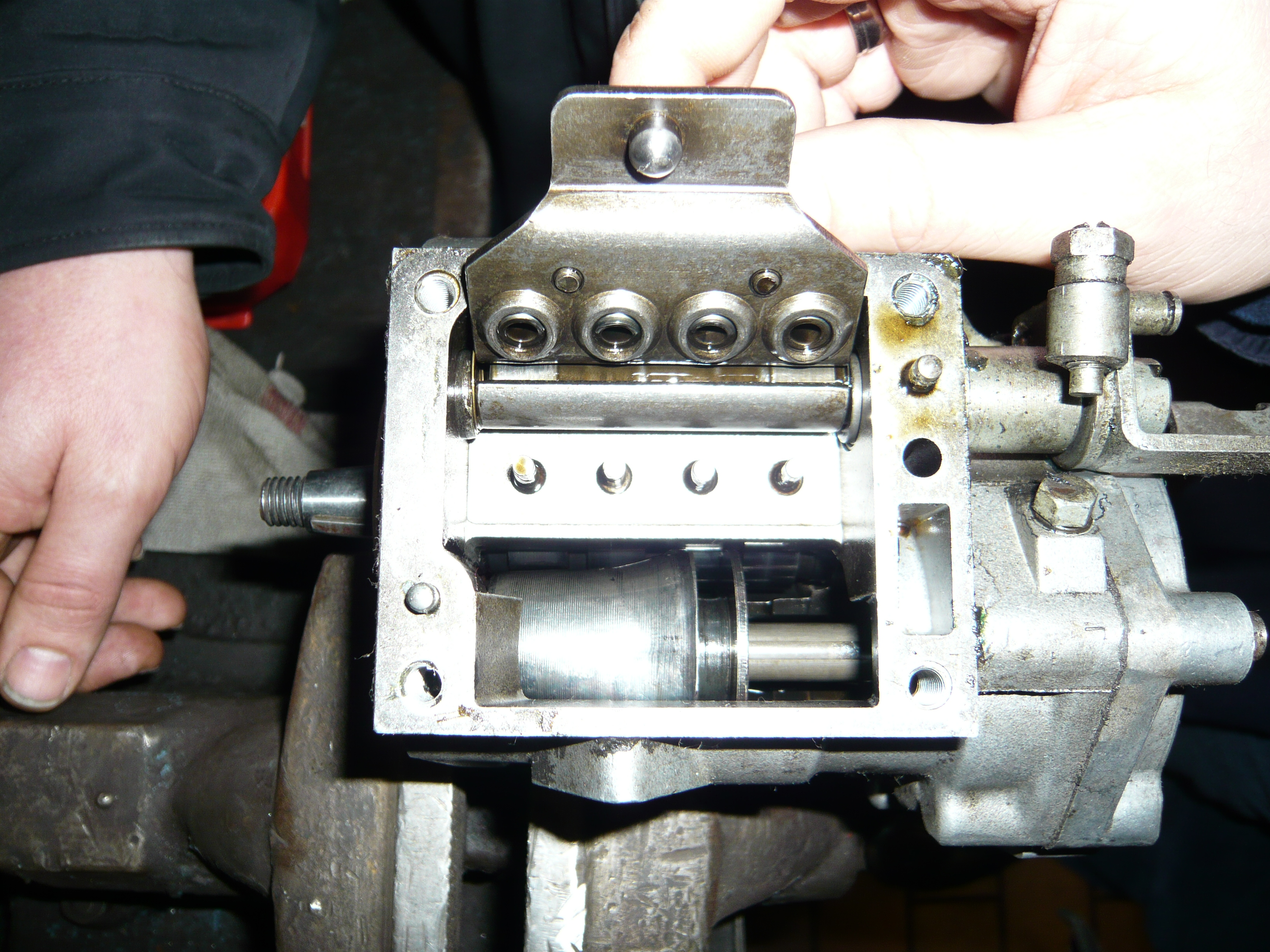 Kugelfischer Gasoline Injectionpump, Type PL 04, Make Kugelfischer from a BMW 2002 tii